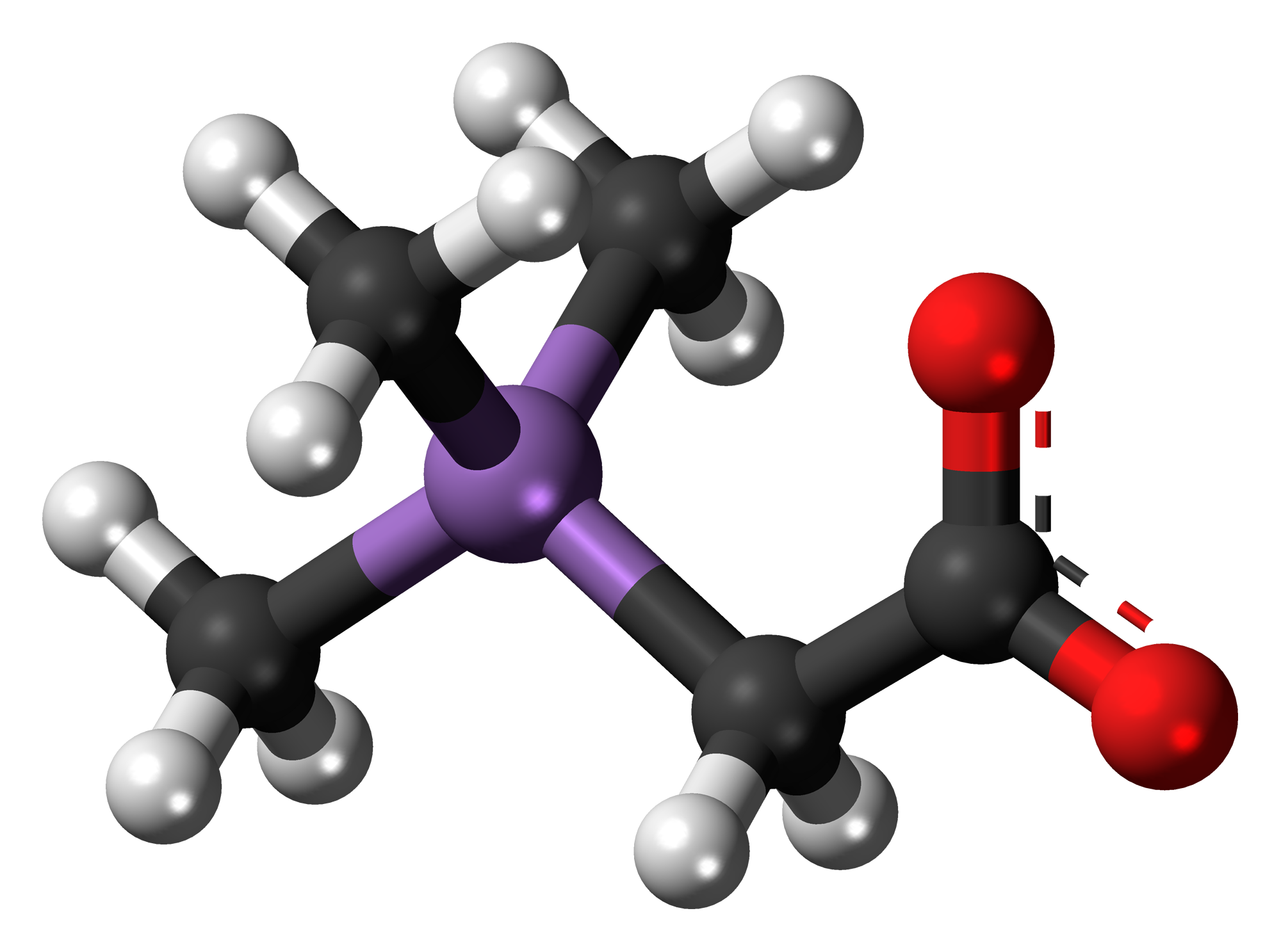 Ball-and-stick model of the arsenobetaine molecule, an organoarsenic compound found in fish. This image show it in zwitterionic form. Colour code: Carbon, C: black Hydrogen, H: white Oxygen, O: red Arsenic, As: lilac